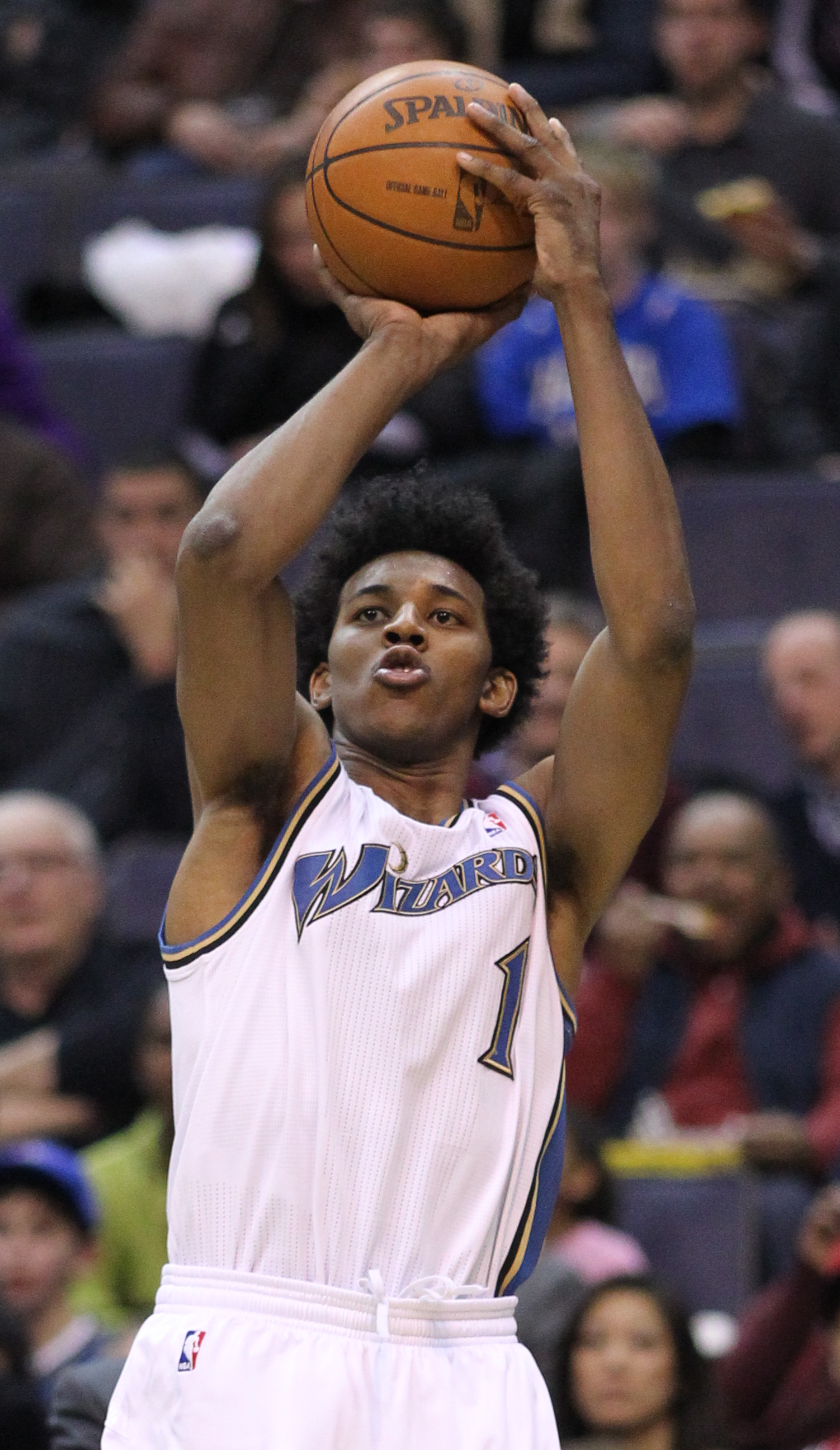 Washington Wizards v/s Orlando Magic February 4, 2011